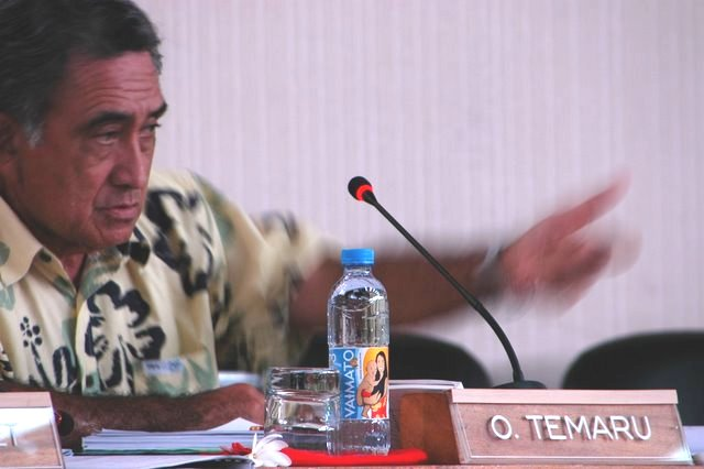 Oscar Temaru at the legislative assembly of French Polynesia .